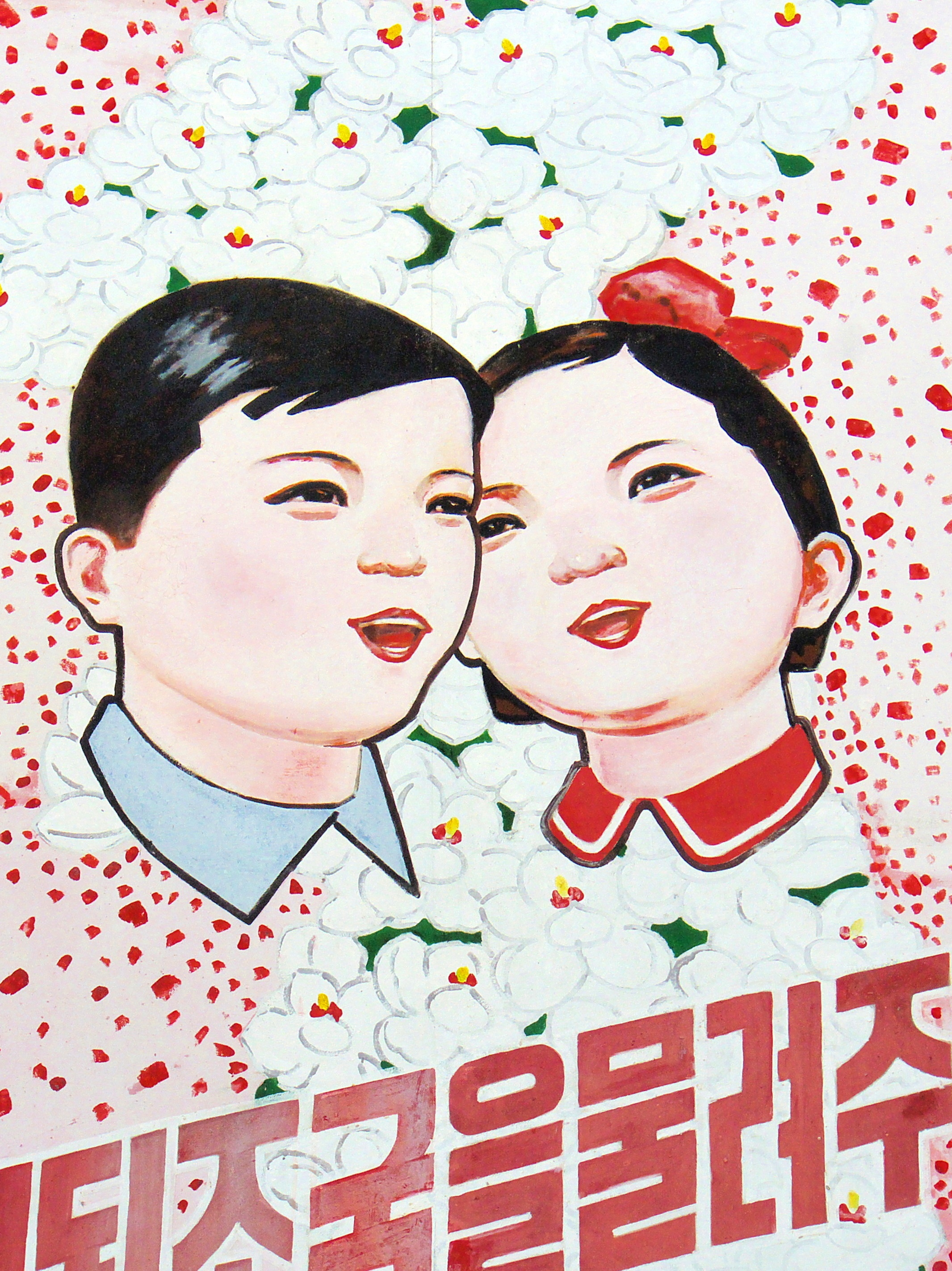 The Demilitarized Zone (DMZ), the 4km wide buffer zone separating North and South Korea is rather ironically, anything but demilitarized. Both countries are still technically at war, the ceasefire and armistice that ended the fighting were never followed with a formal peace treaty.